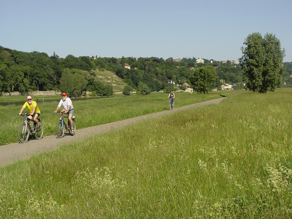 view from Dresden-Blasewitz (via the Elbe river) to Dresden-Loschwitz